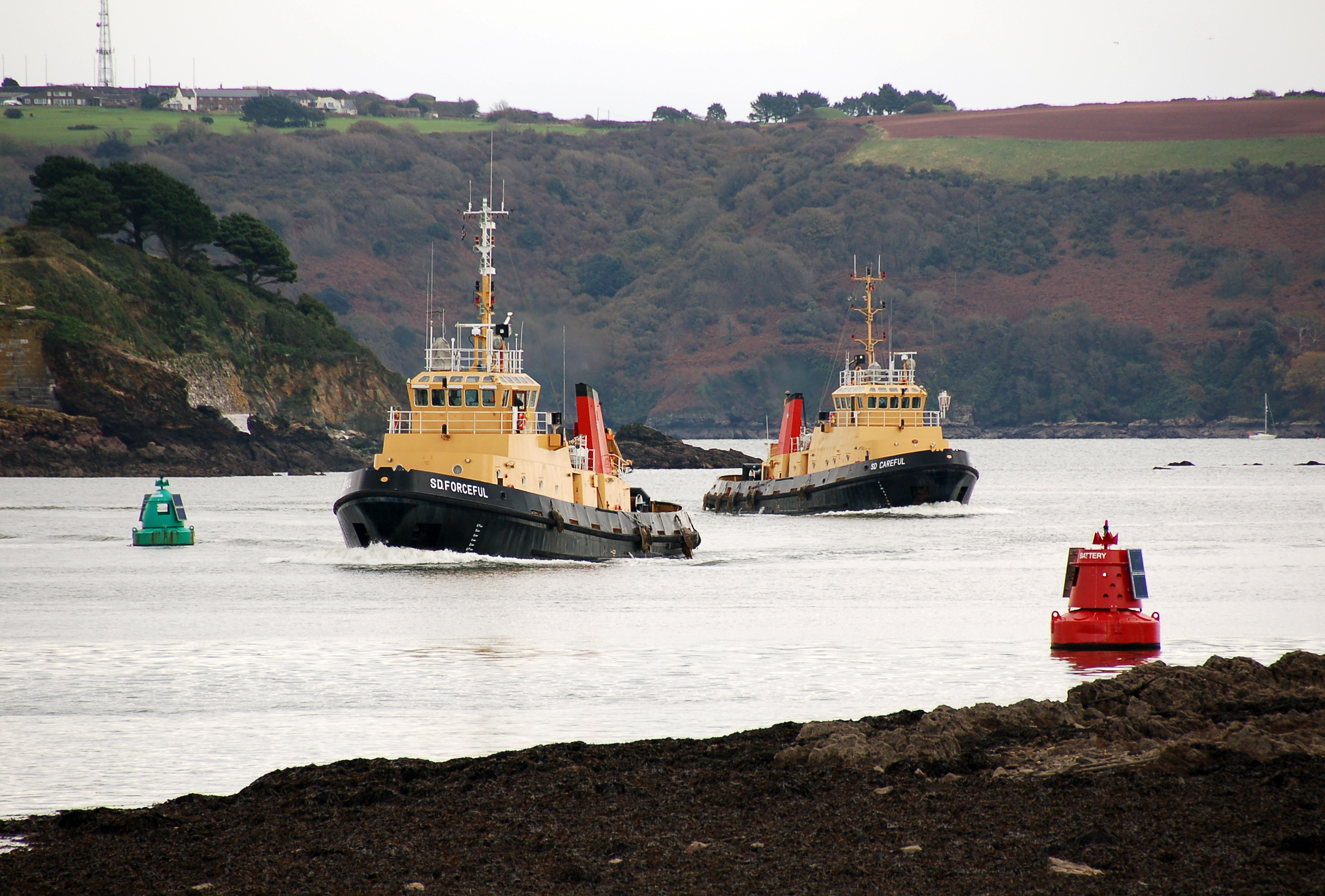 The SD Forceful and SD Careful entering the River Tamar in Plymouth. The tugs have just passed Drake's Island. §SD FORCEFUL IMO Number: 8401468 MMSI Number: 232002650 Callsign: GAAE Length: 39 m Beam: 10 m §SD CAREFUL IMO Number: 7902350 MMSI Number: 232002652 Callsign: GZAZ Length: 38 m Beam: 9 m